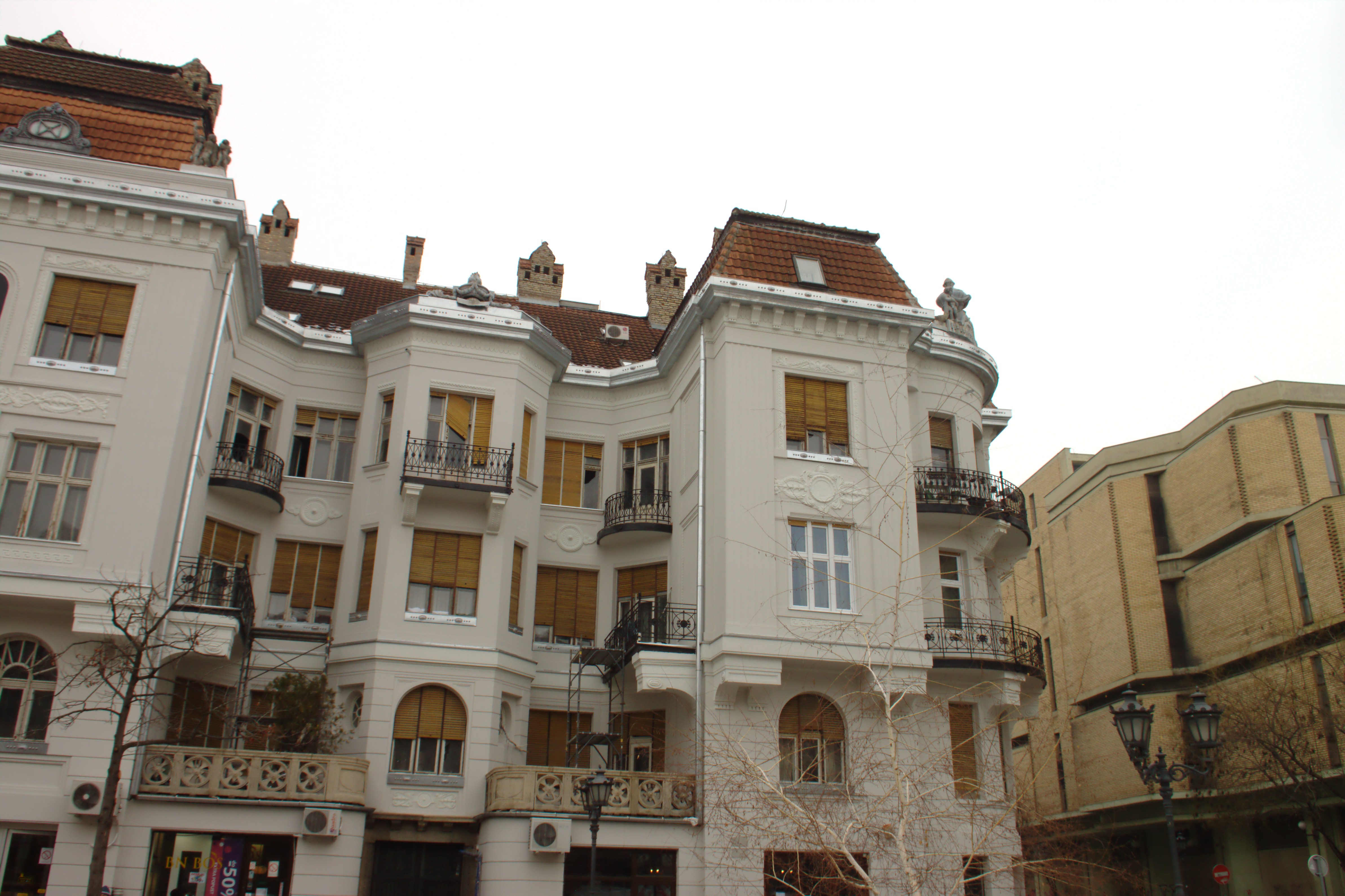 A renovated building in the very center of Novi Sad, Serbia at the Narodnih Heroja Street